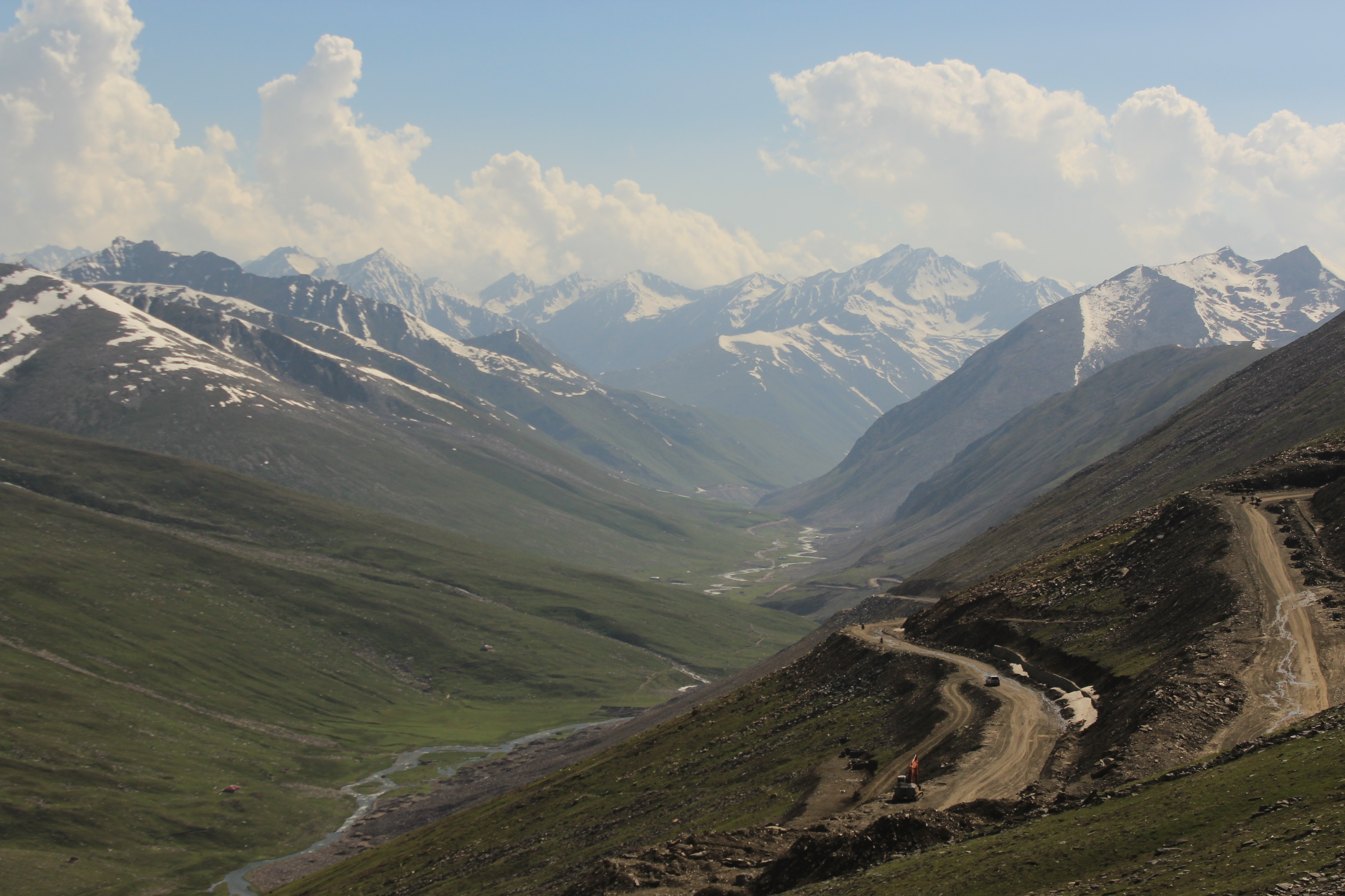 babusar top